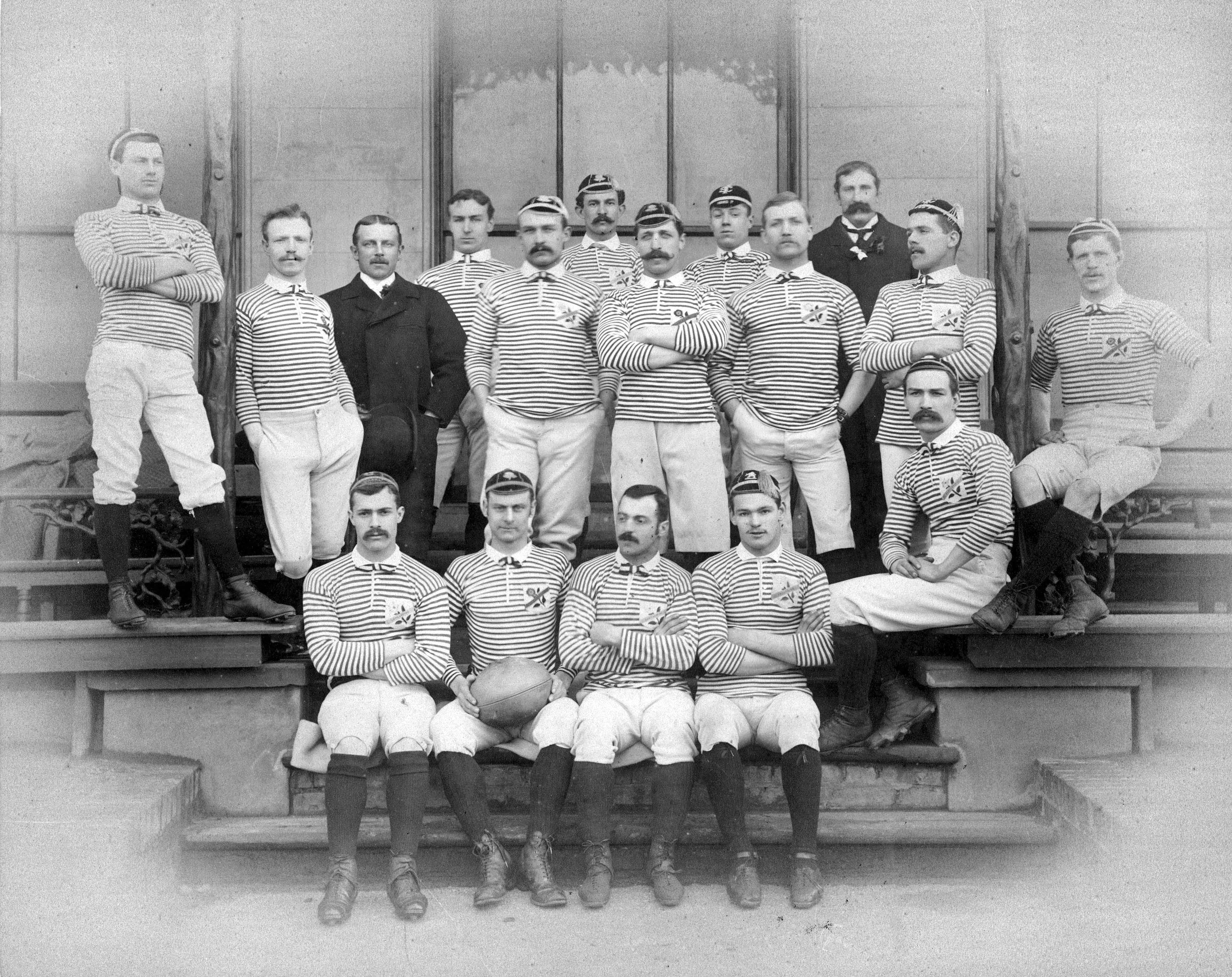 The Lancashire County rugby union team that played Middlesex County at the Jubilee Football Festival, 12 March 1887. See uncropped image for player and club information.